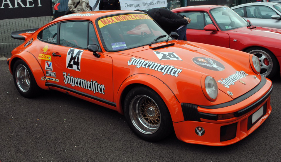 Porsche 934 Turbo RSR with "Jägermeister" cladding at the 2011 Spa Classic.